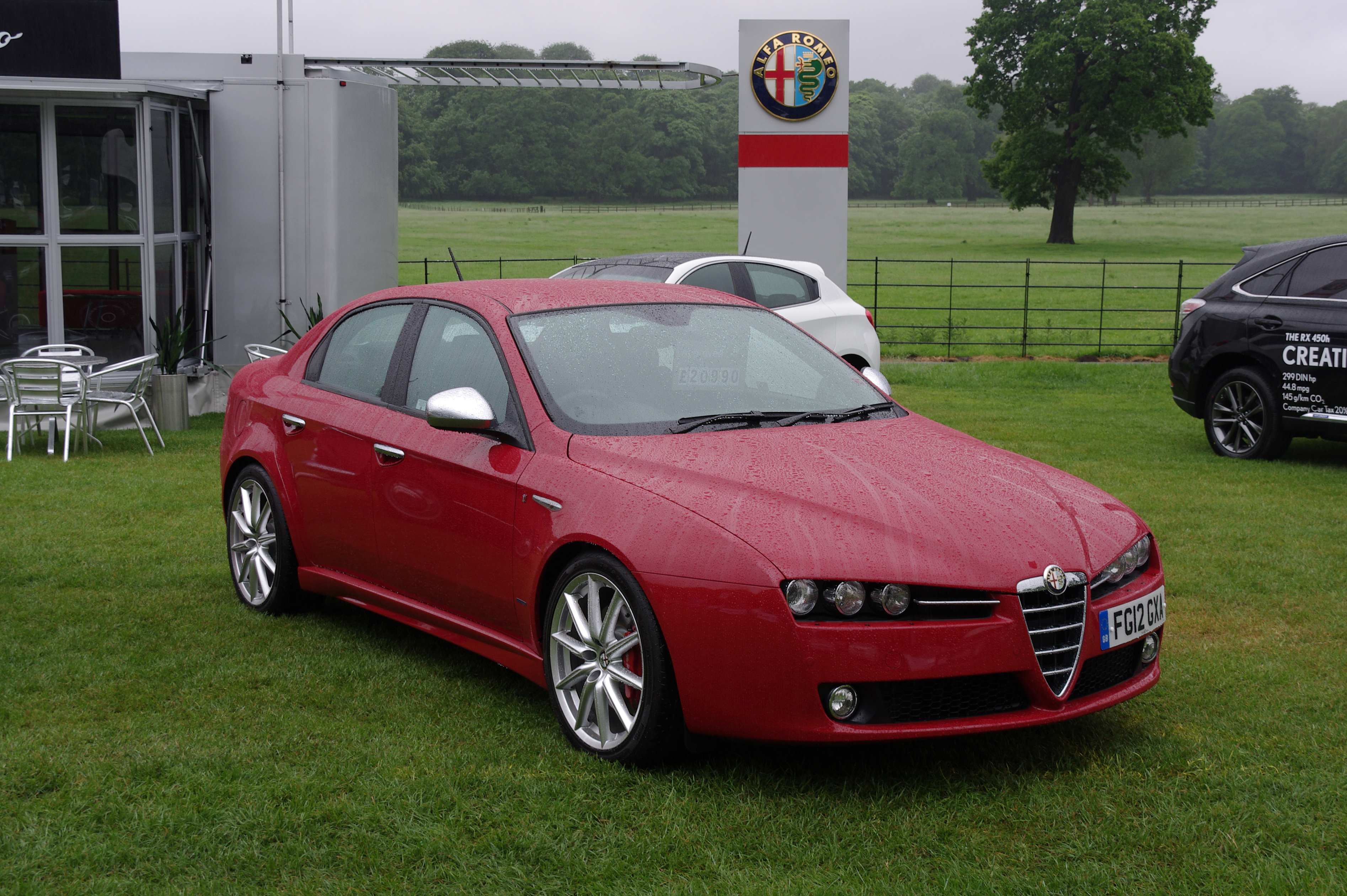 An Alfa Romeo 159 at the Nottingham Autokarna.